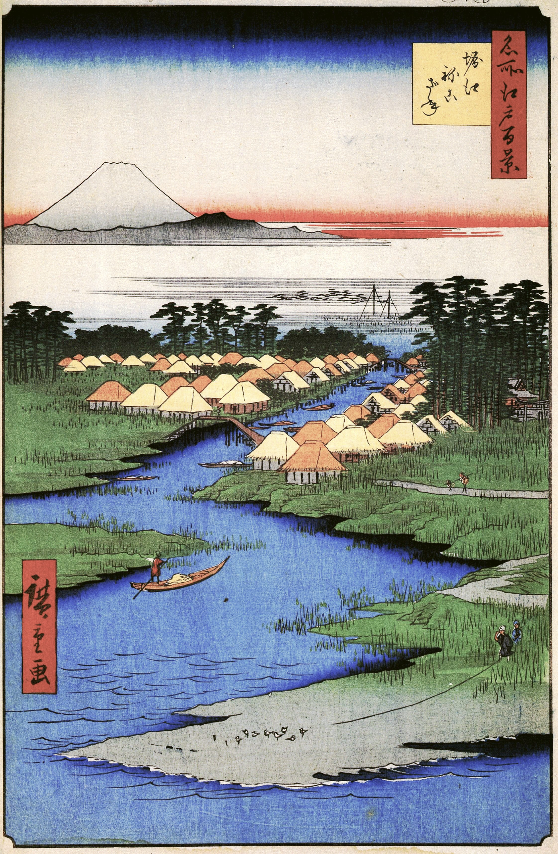 Part of the series One Hundred Famous Views of Edo, no. 096, part 3: Autumn.